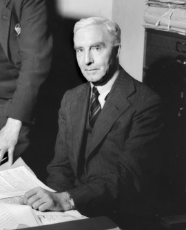 (Cropped from Allan Walker 4080647)